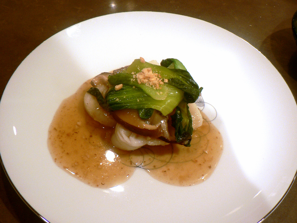 1)Rinse the fresh noodles in warm running water to loosen. Stack the sheets and slice into 3/4" wide noodles. If you're using dried noodles, soak them for 15 minutes in warm water. (Hmm... I don't remember him doing this. I thought he sliced them pretty much as they were in the original package.) 2)Heat 1.5 tbl oil in a hot pan. (A heavy pan or wok works is recommended.) Sear the noodles . Prepare them in batches if necessary using ony 1 tbl of oil for successive batches. 3)Wipe the pan and replace it on the burner. Add garlic when the pan is hot. Stir fry until the garlic is golden brown (about 10 sec). Add the bok choy and stir fry until they turn bright green about .5 minutes). 4) Add the soybean paste, soy sauce, fish sauce, vinegar and the remaining sugar. Then add the chicken stock. Bring this to a boil and stir in the tapioca starch slurry. Bring this to a boil and then reduce the heat. Simmer, stir and reduce until the greens are tender. 5) Ladle the sauce over the noodles and serve. The printed recipe we received doesn't discuss the mushroom sauce that topped the noodles. It involved fermented yellow bean paste.